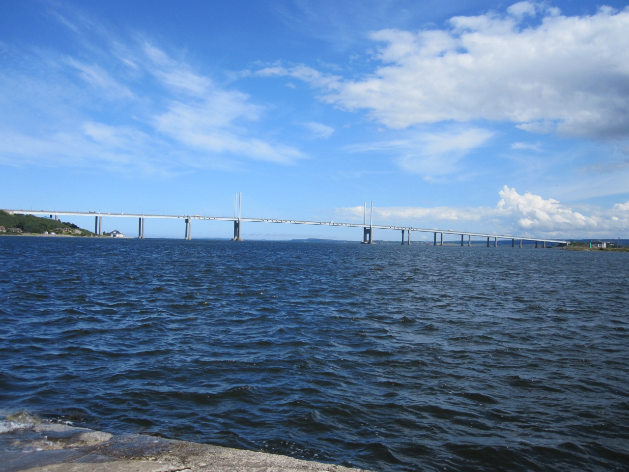 Kessock Bridge, three days before its 30th anniversary, viewed from the old Kessock ferry slipway at South Kessock